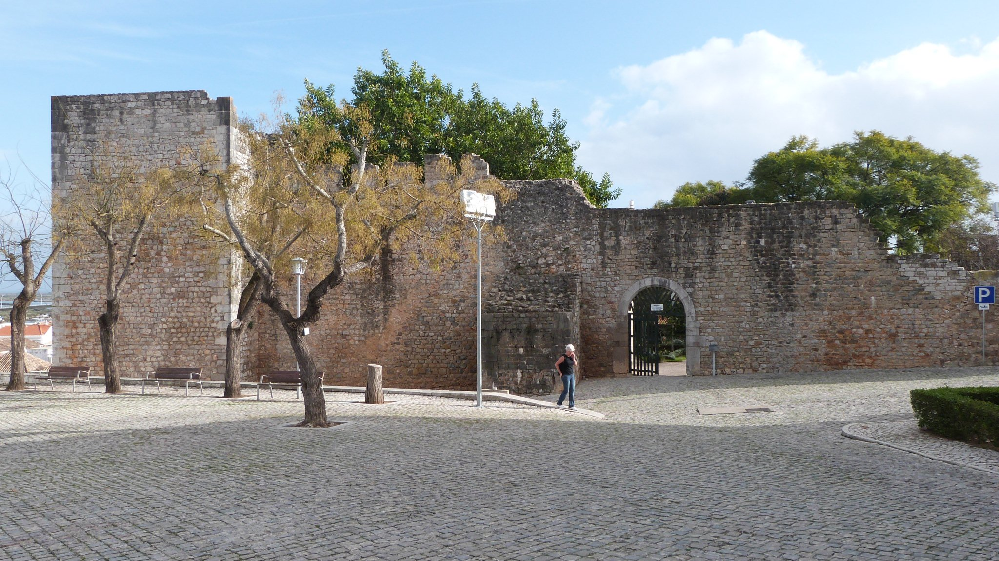 While archeological excavations reveal fortifications going back to the times of the Phoenicians, much of what we now see of Tavira Castle dates from the reconstruction of 1293 by King Dinis.